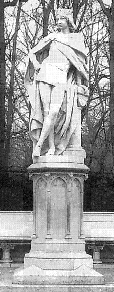 Central statue from the monument group in the former Siegesallee in Berlin commemorating Margrave Henry II of Brandenburg, called "Heinrich das Kind" (German for "Henry the Child"). Sculptor August Kraus. The sculpture was unveiled on 22 March 1900. The facial features and melancholy gaze of Henry the Child were derived from the 13-year-old French musical prodigy Paul Bazelaire, who was visiting Berlin at that time. The inclusion in the Siegesallee of the last Ascanian ruler Henry II, who was of virtually no significance for the history of Brandenburg, was controversial and ultimately based solely on the need to maintain symmetry, with 16 monument groups on each side of the boulevard.